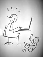 Learn online through the wikiCourses: The student has an option to attend face to face sessions to help her with digital literacies and familiarise herself with the devices she will need to use to complete the online course. A range of TAFE competency based courses are made available on a wiki website, and maintained through International collaboration.